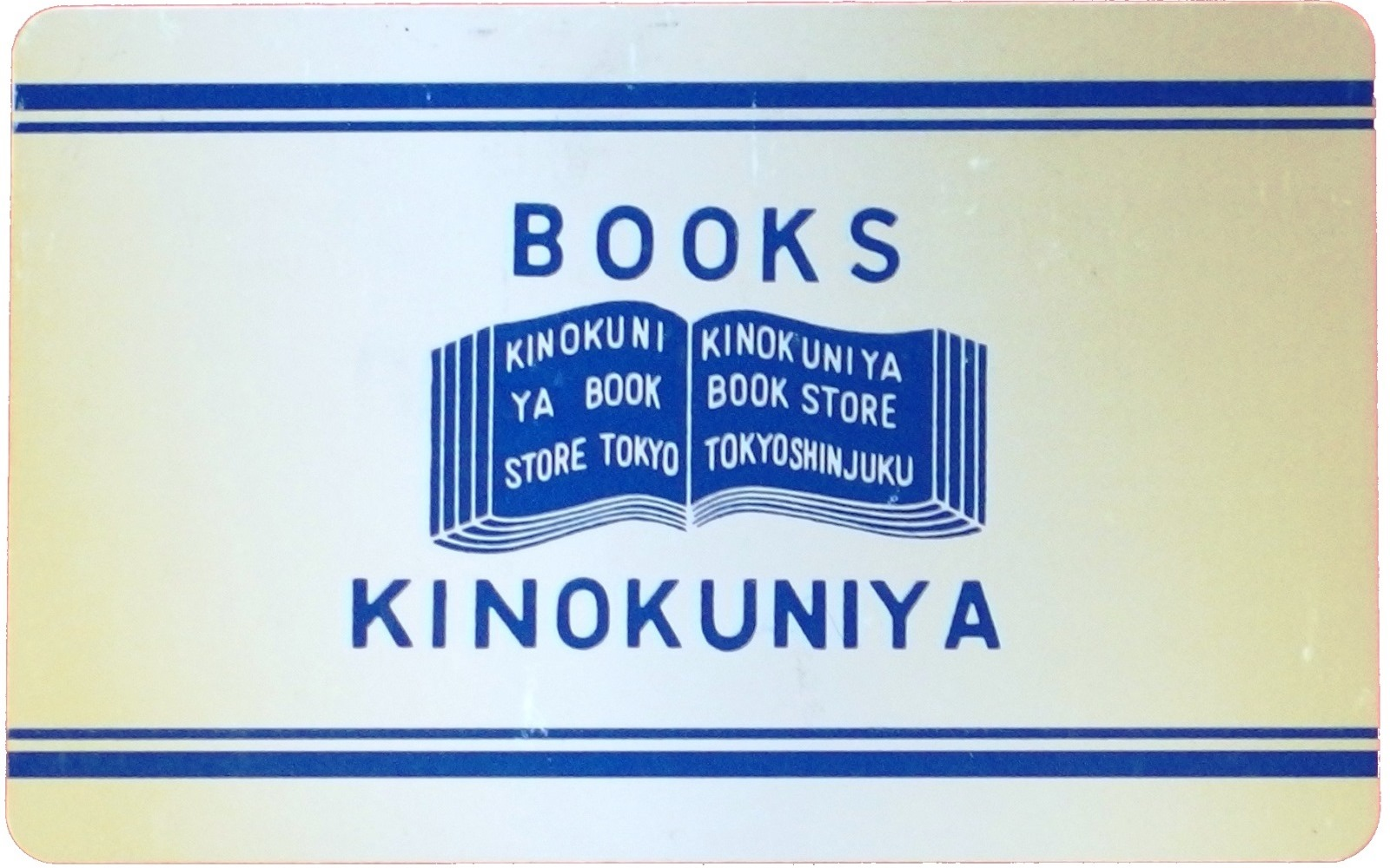 point cards available at Kinokuniya book store.